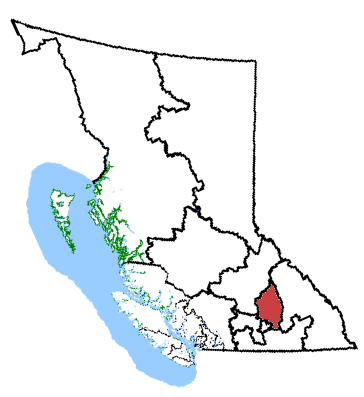 Map of the Okanagan—Shuswap electoral district. Based on Earl Andrew's maps, created by SimonP.